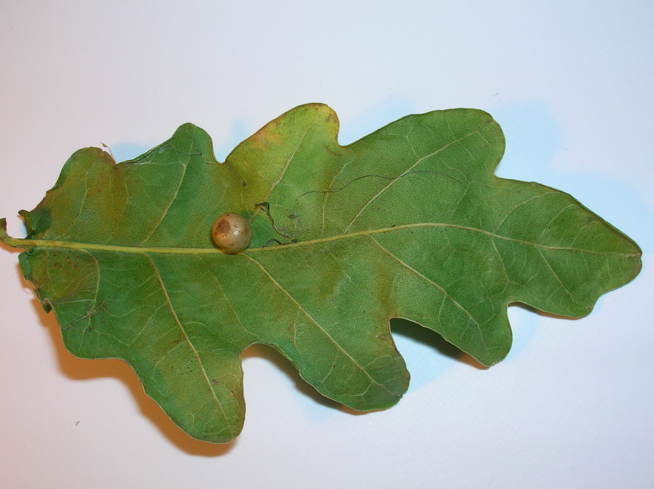 Red-pea gall (Cynips divisa) on Peduculate Oak (Quercus robur).